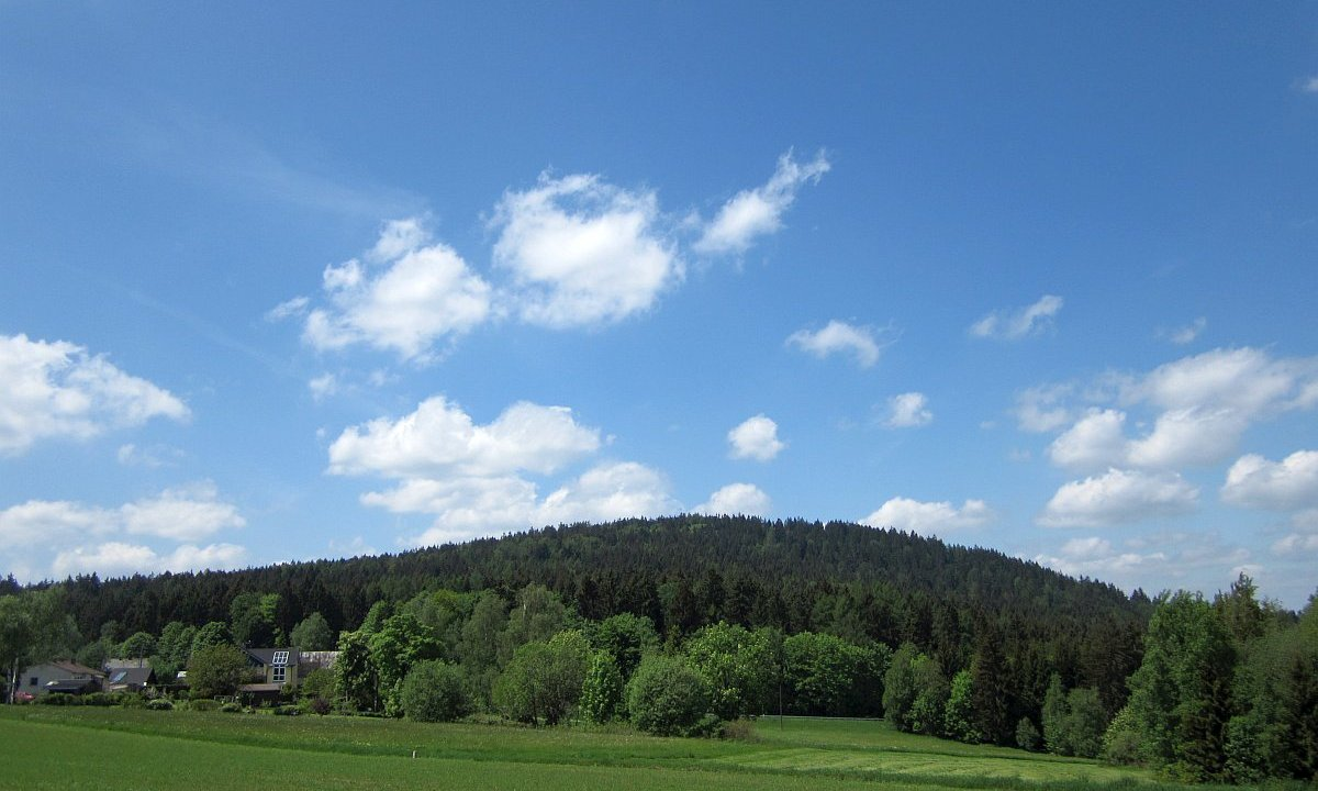 Hohe Matze from SW, foreground left the Wurmlohpass